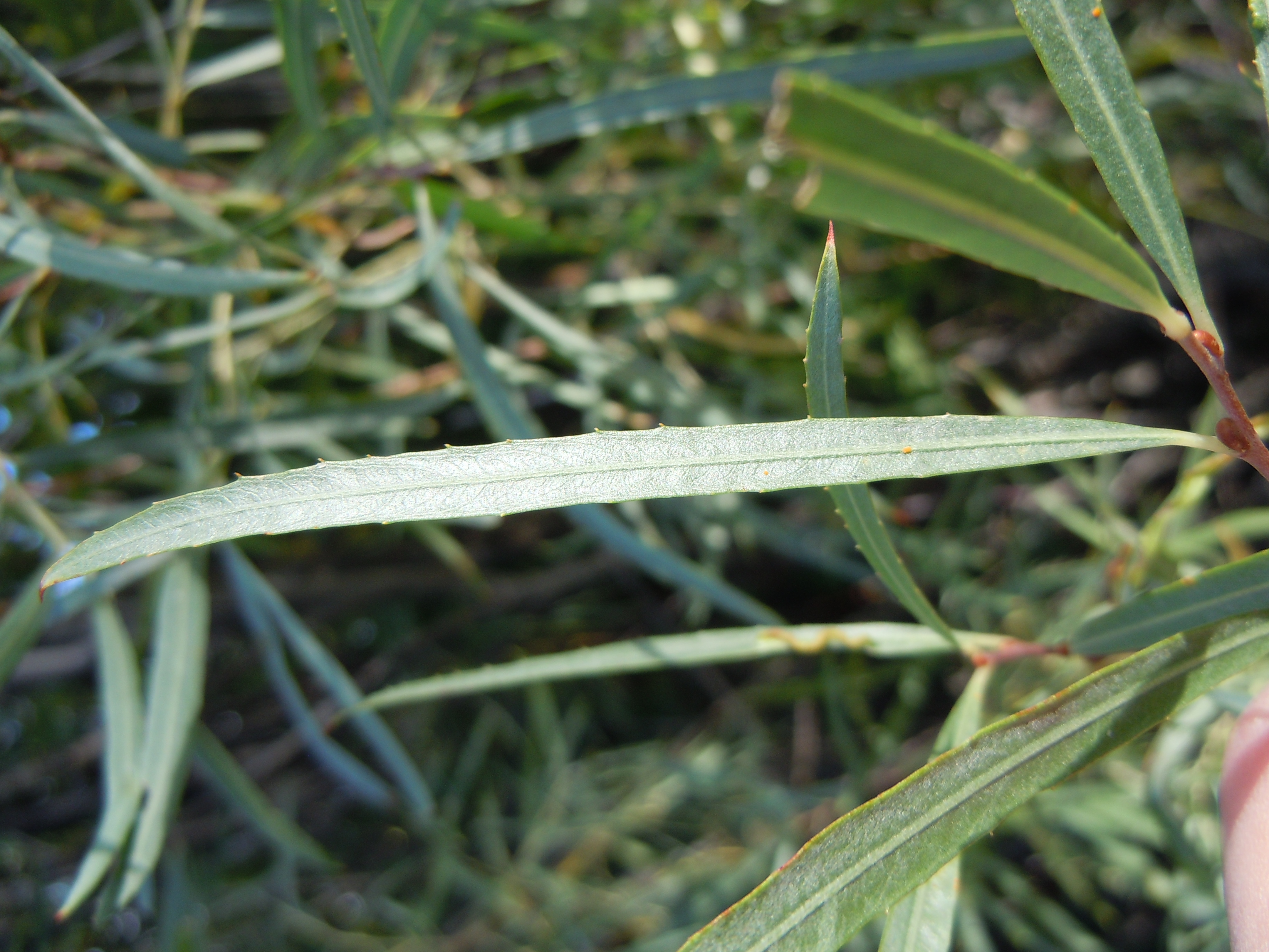 The linear leaves are generally green and glabrous.